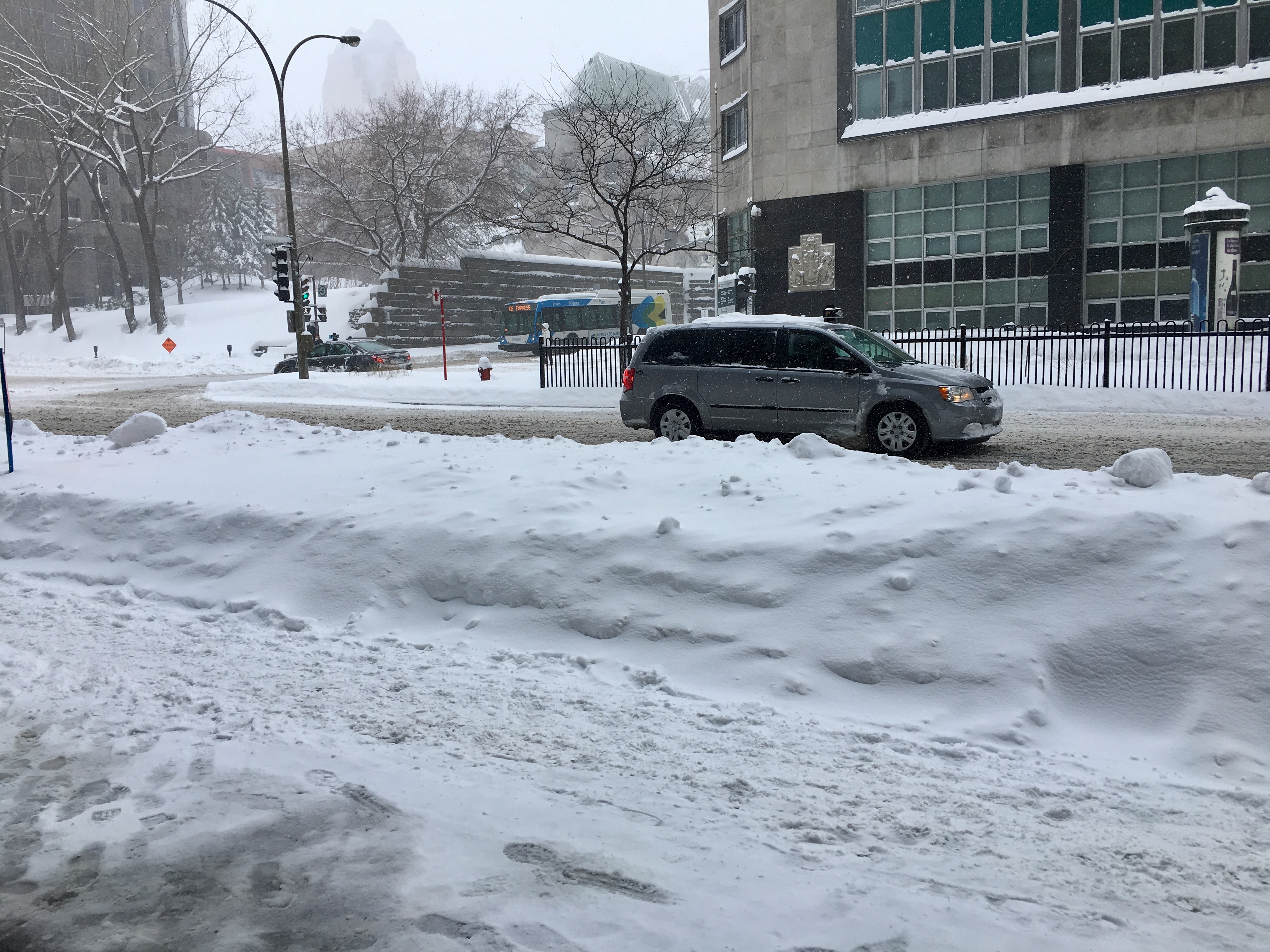 From Dubai to a wintry week in Montreal. Some great views from the plane.